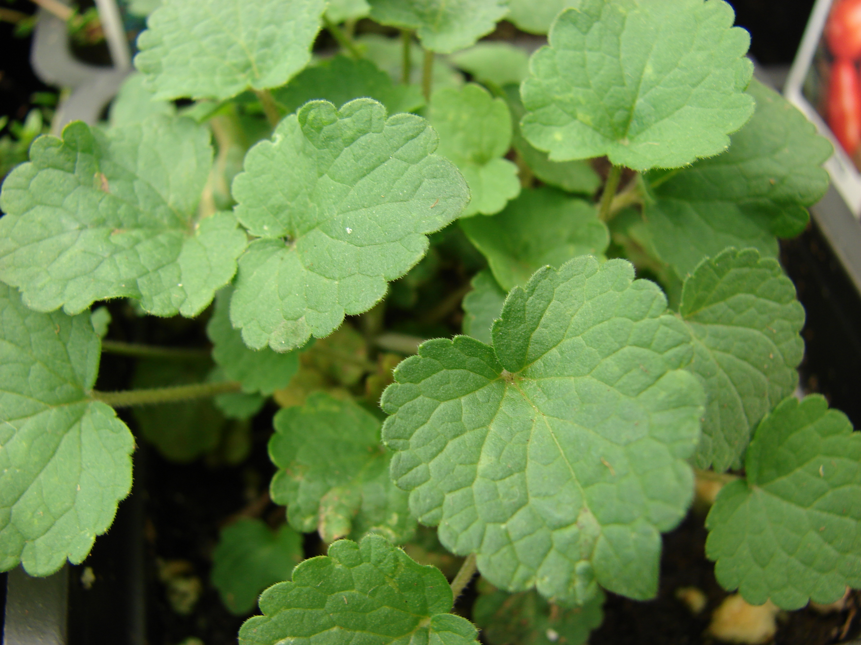 Agastache foeniculum (habit). Location: Maui, Walmart Kahului